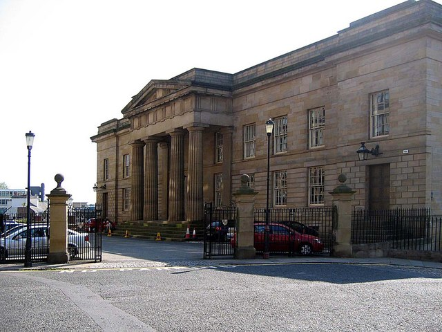 Moot Hall Crown Court used for criminal and civil cases